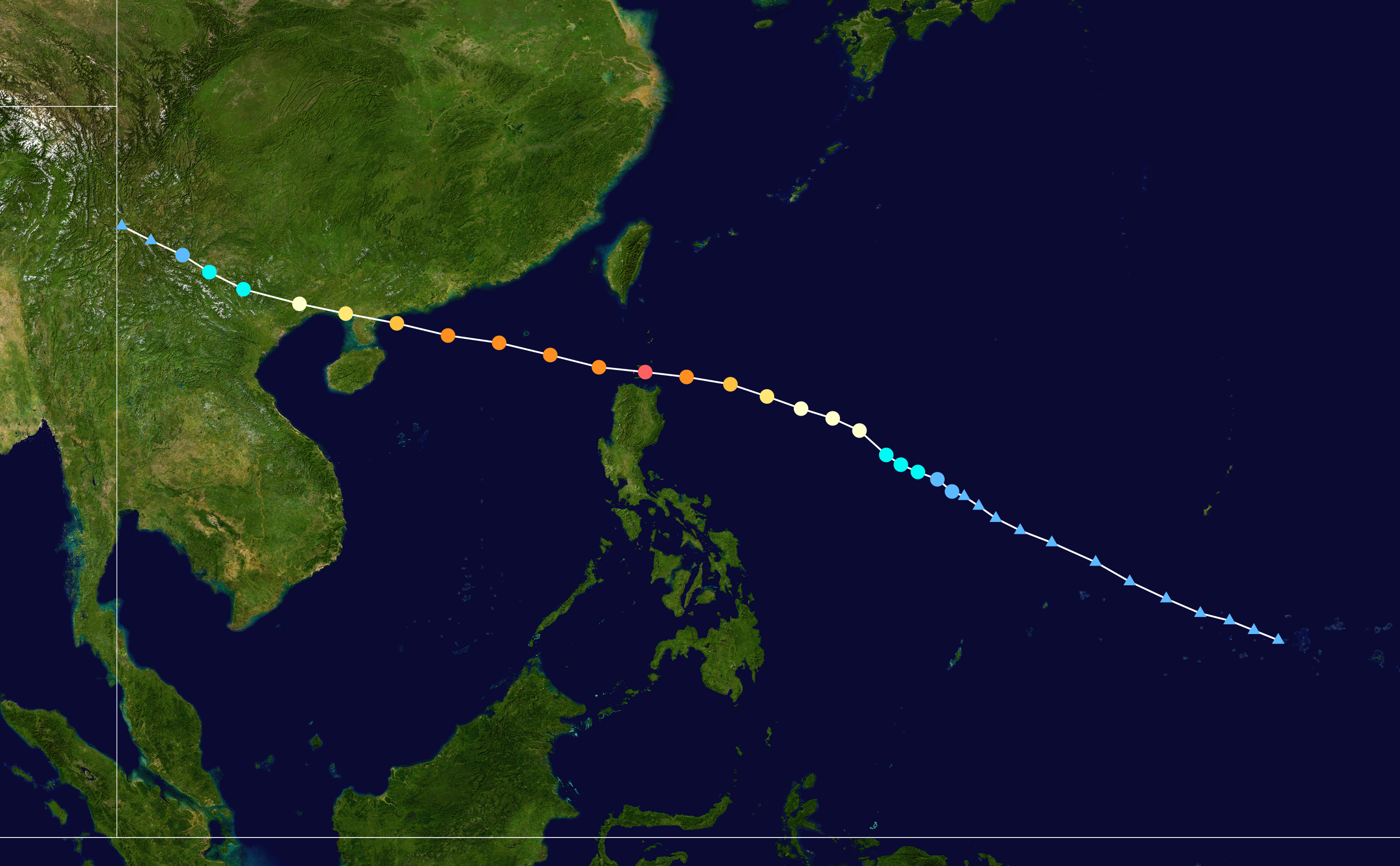 Typhoon Sally 1996 track. Uses the color scheme from the Saffir-Simpson Hurricane Scale.